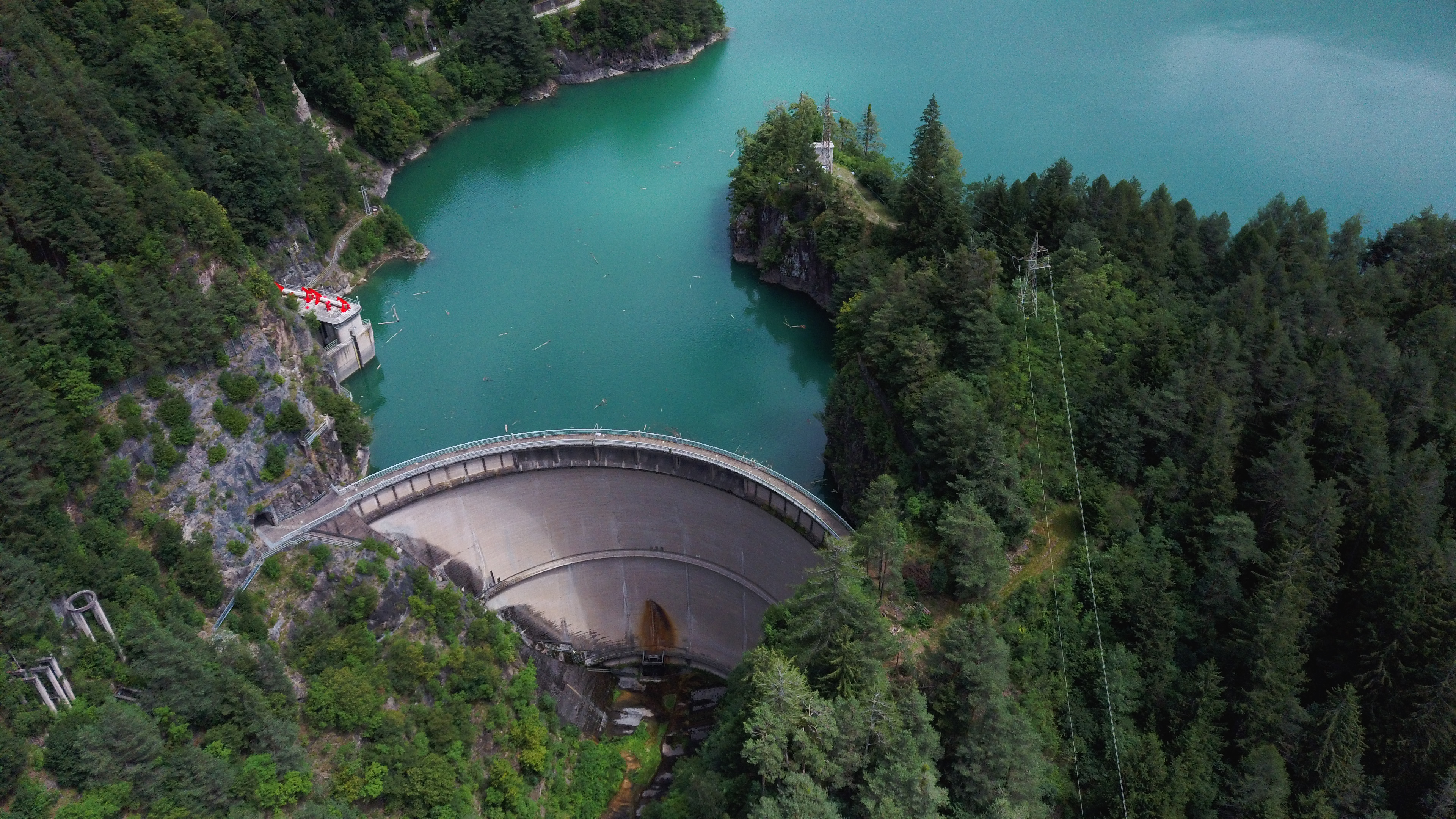 Stramentizzo Dam (Castello-Molina di Fiemme, Trentino, Italy)